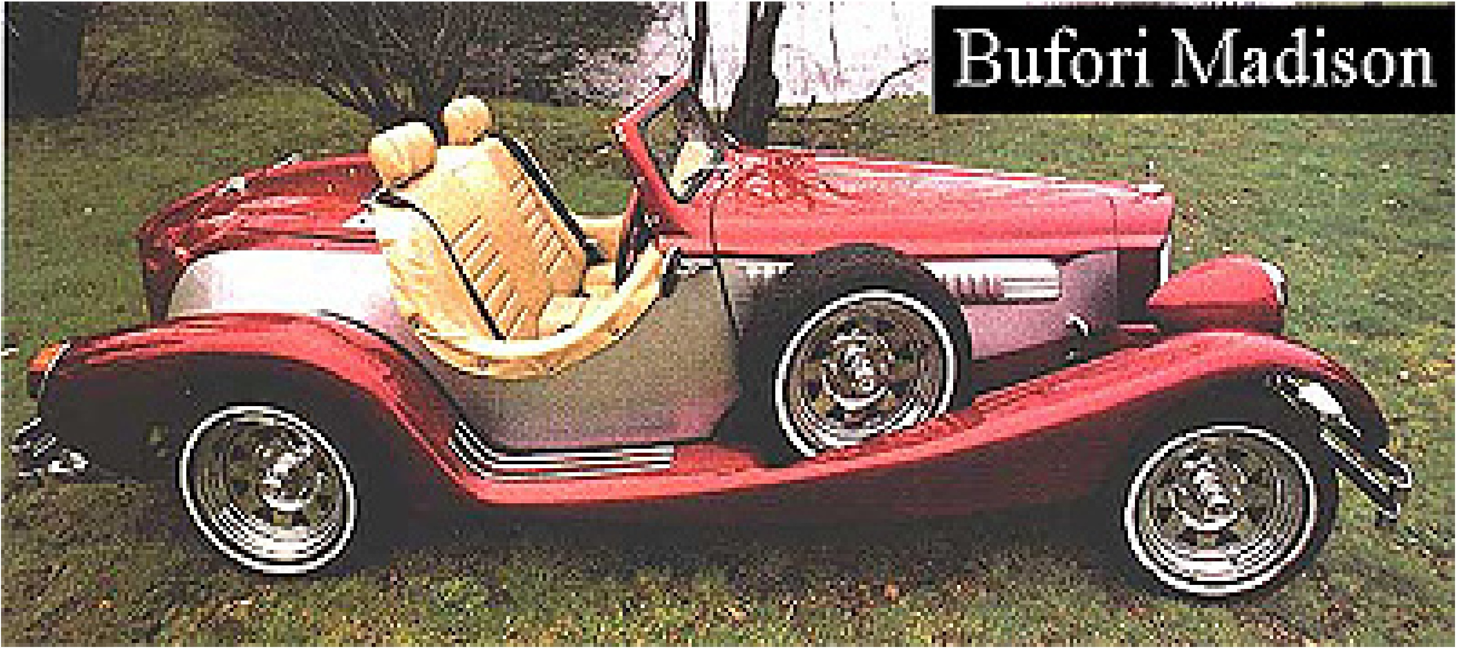 Bufori Madison I am a representative of Bufori Motor Car Company and have permission to upload this photo